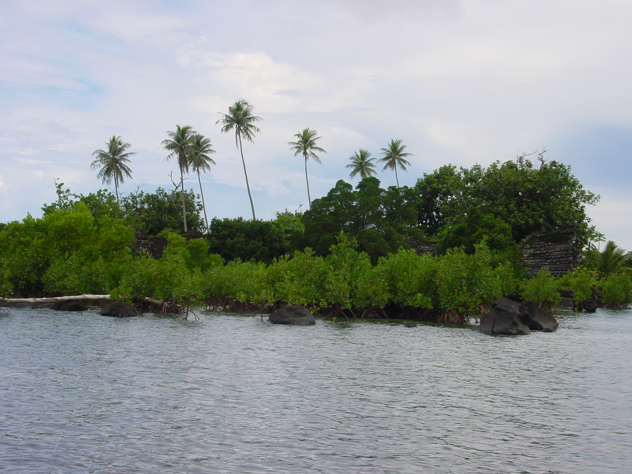 The ruins of Nan Madol in Pohnpei